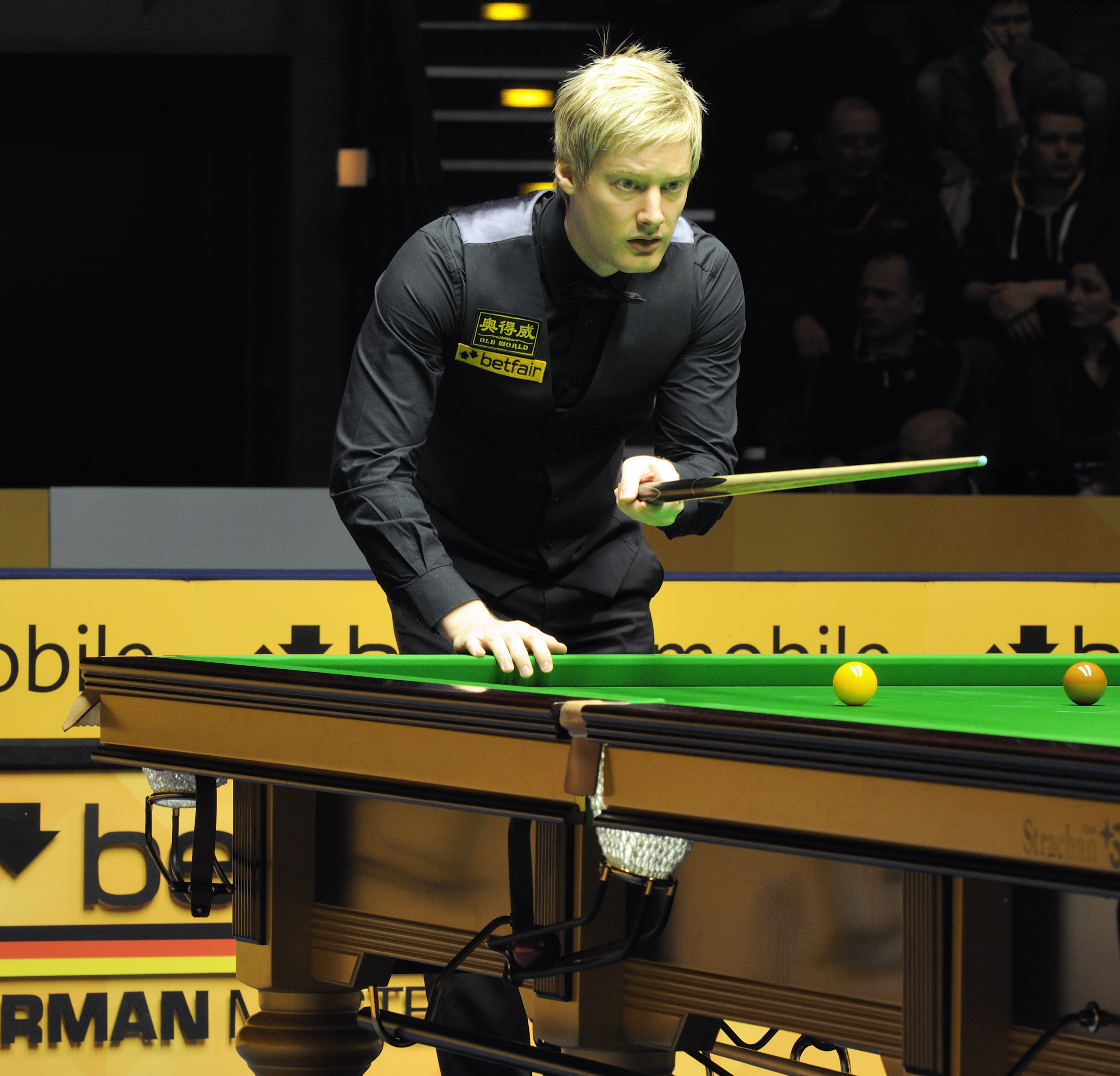 Picture taken in Berlin during the Snooker German Masters in 2013. Neil Robertson.